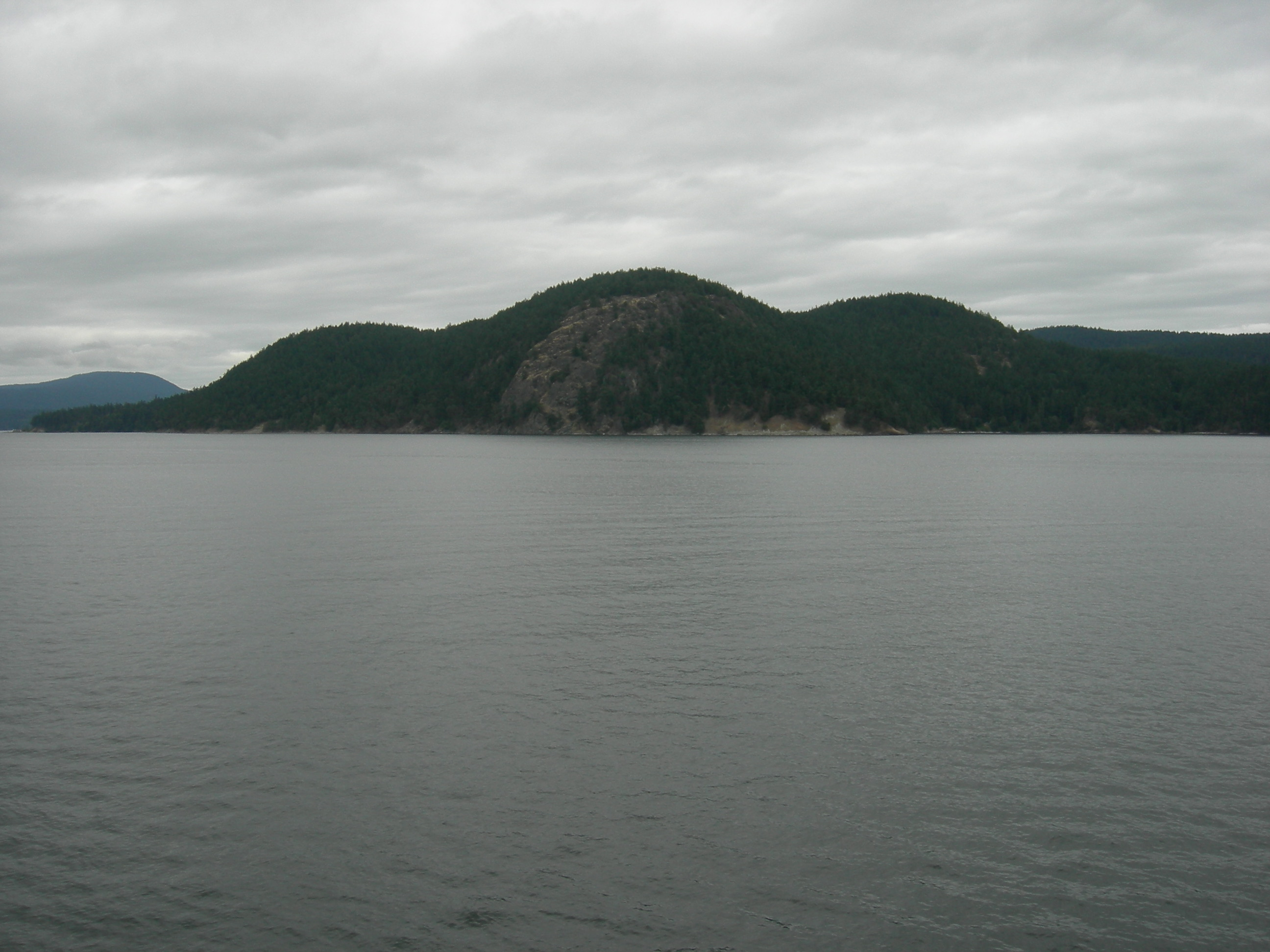 View from a Washington State Ferry en route from Lopez Island to Anacortes. I believe that this is Blakely Island, seen as the ferry goes through Thatcher Pass.